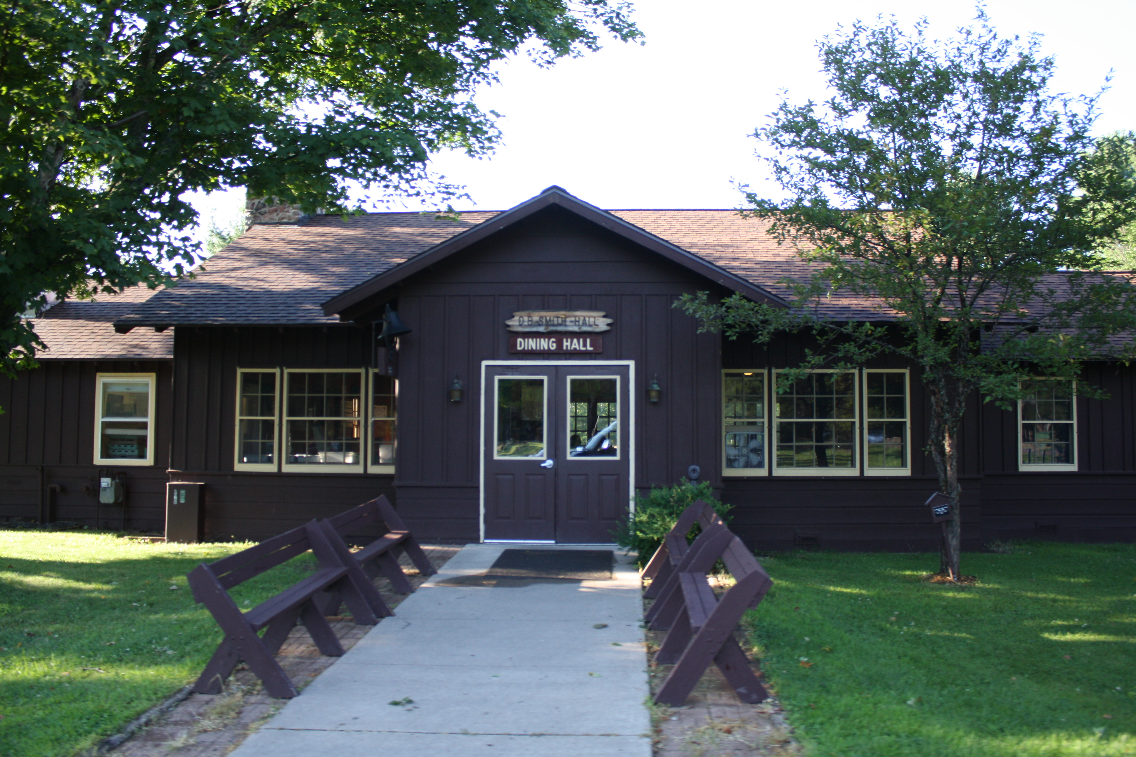 The dining hall for the Trees for Tomorrow School in Eagle River, Wisconsin. It is listed on the National Register of Historic Places as the Region Nine Training School.